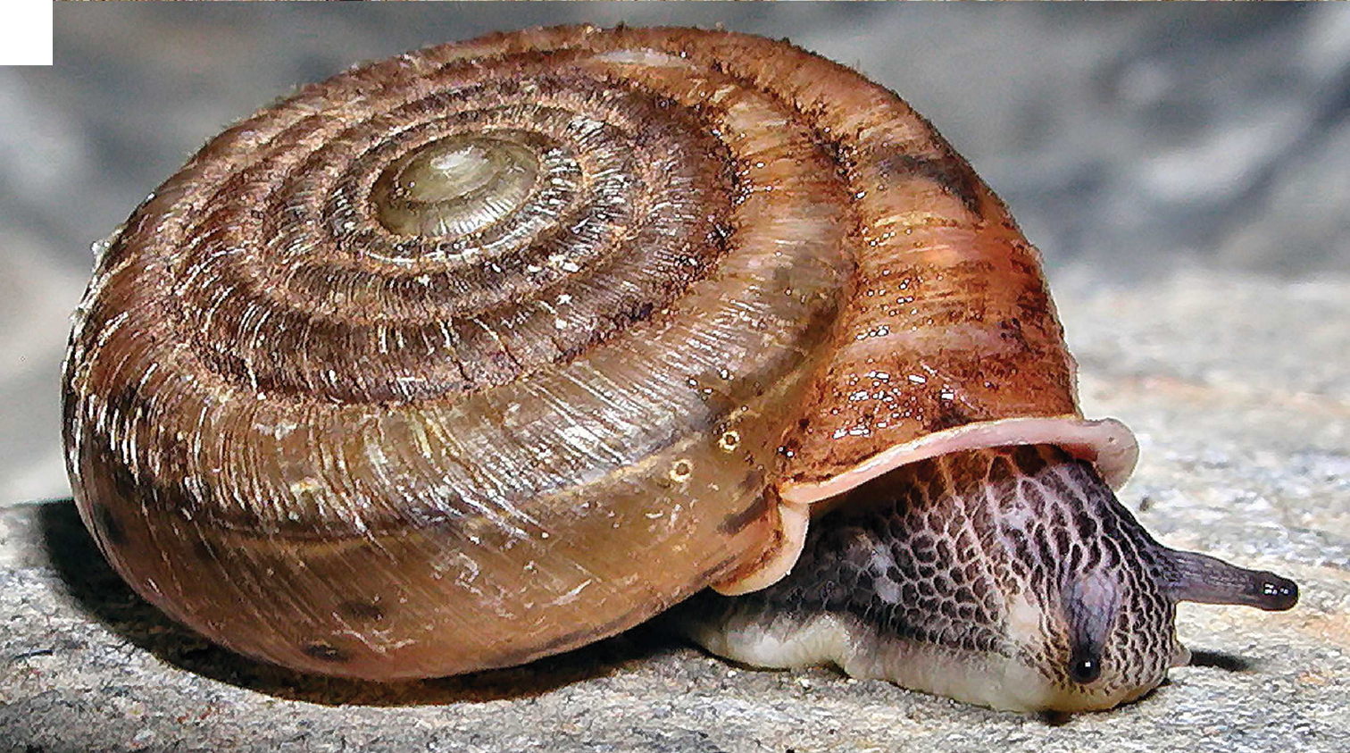 Photo of Gudeodiscus messageri raheemi.